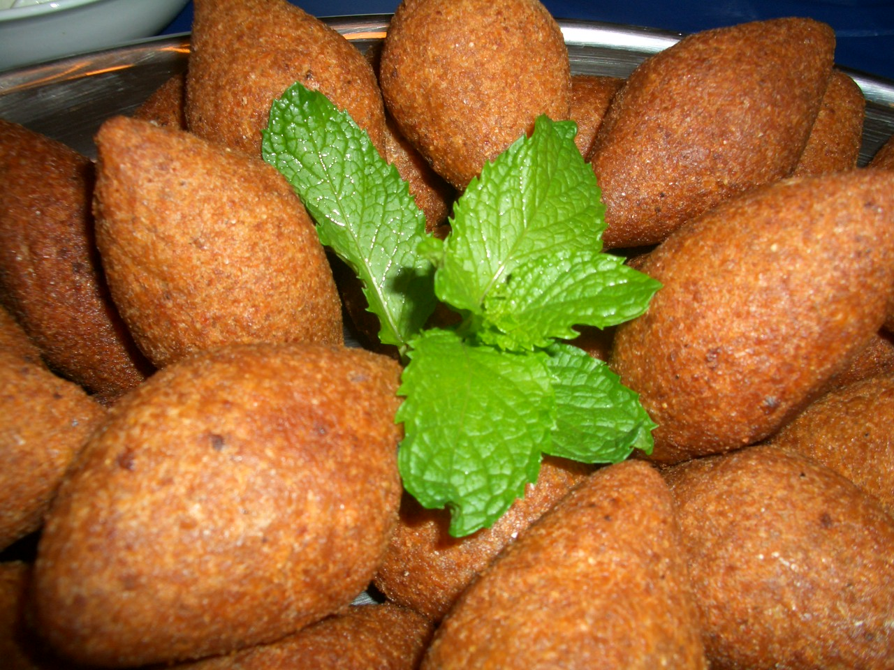 Kibbeh